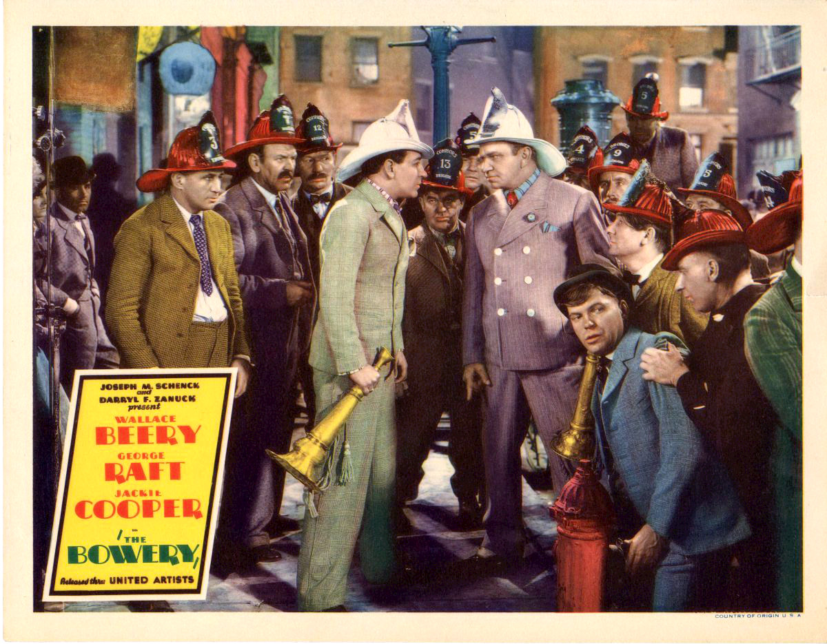 Lobby card from the American film The Bowery 1933 with George Raft and Wallace Beery.